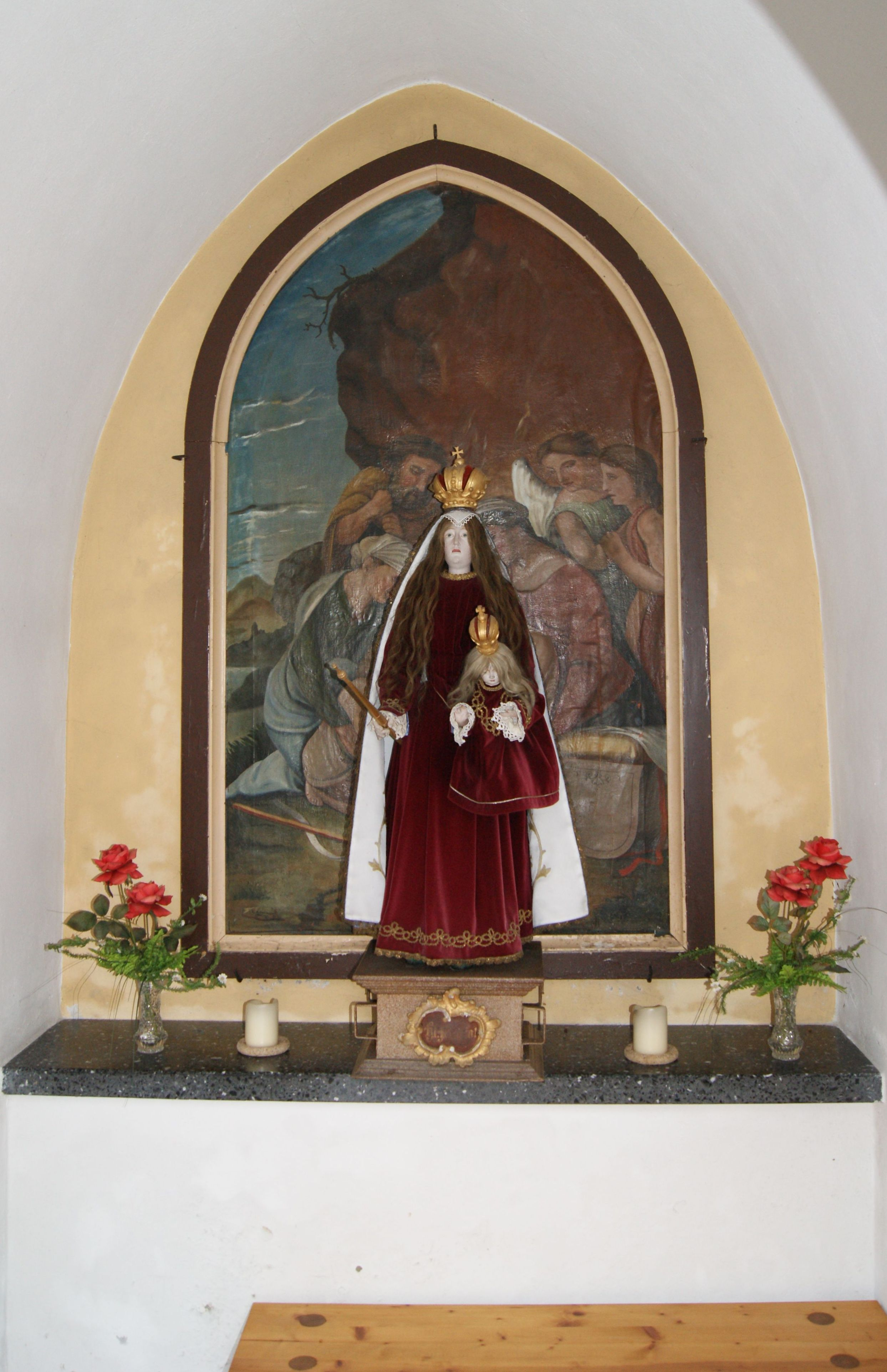 Chapel of the Holy Mary in the local centre "Hintere Achmühle" in Dornbirn, Vorarlberg, Austria. Altar. Image in the background: hl. Family with St. John representing, Signature: Schwendinger, Maler. Probably originated in 1853. In the foreground the statue of Our Lady.